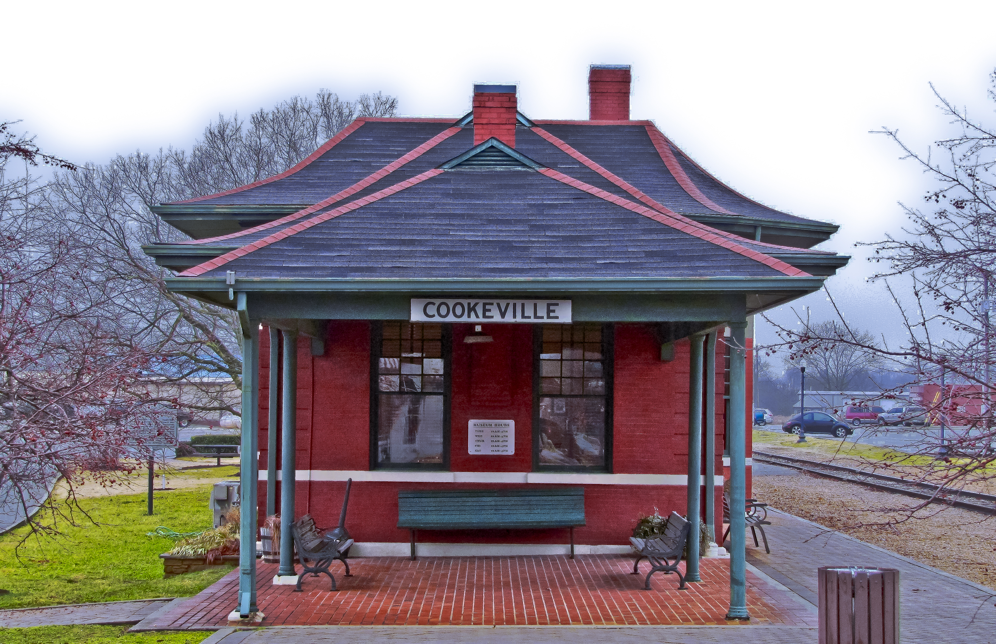 The eastern facade of the Cookeville Railroad Depot, built by the Tennessee Central Railroad in 1909, in Cookeville, Tennessee, USA.